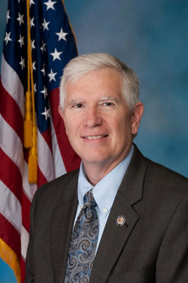 Official portrait of Congressman Mo Brooks.